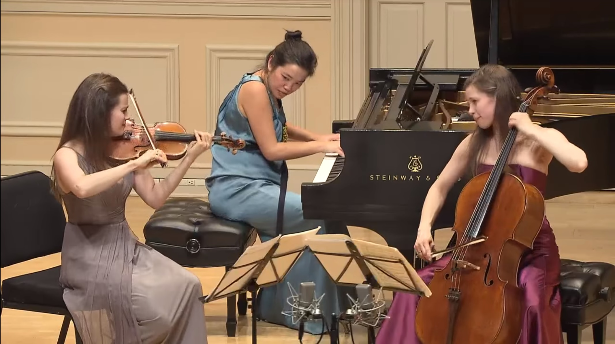 The Claremont Trio performs the music of Fanny Mendelssohn Hensel, and is joined by violist Misha Amory for a performance of Brahms' Piano Quartet no. 3. Program: Fanny Mendelssohn Hensel, Piano Trio in D minor [1:20] Brahms, Piano Quartet no. 3 in C minor [29:27]